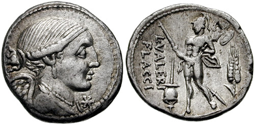 Denarius issued by Lucius Valerius Flaccus in 108/107 BC, depicting a draped bust of Victory on the obverse. The reverse depicts Mars walking and carrying a trophy, with a flamen's cap (left) and a stalk of grain (right).